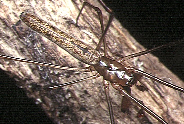 male Tetragnatha maxillosa from Okinawa.